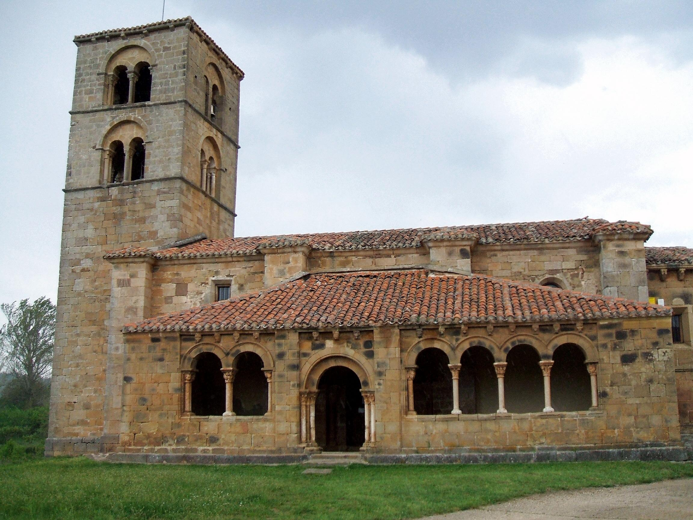 Iglesia románica de Nuestra Señora de la Asunción, en Jaramillo de la Fuente (Burgos, Castilla y León, España)